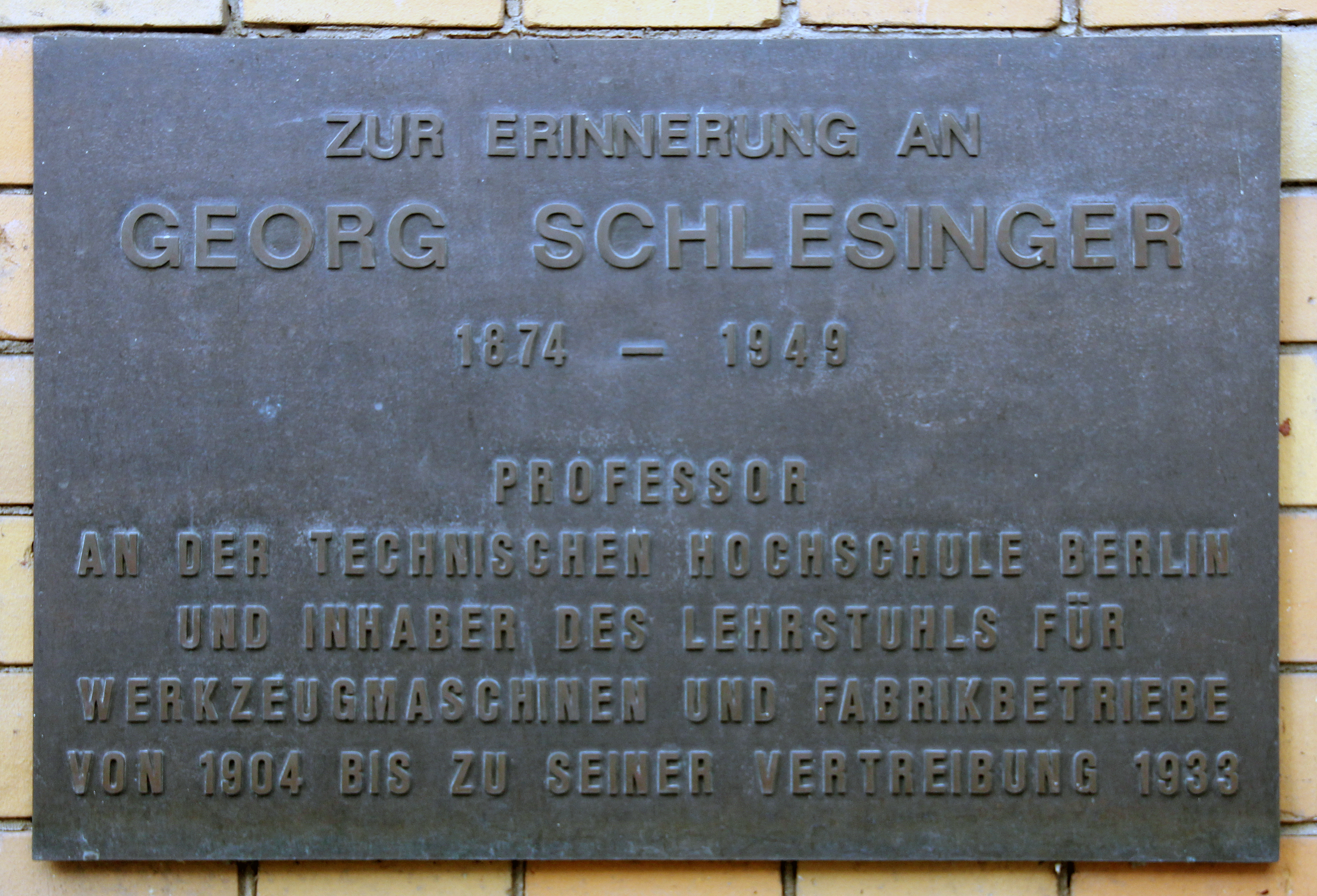 Memorial plaque, Georg Schlesinger, Straße des 17. Juni 135, Berlin-Charlottenburg, Deutschland